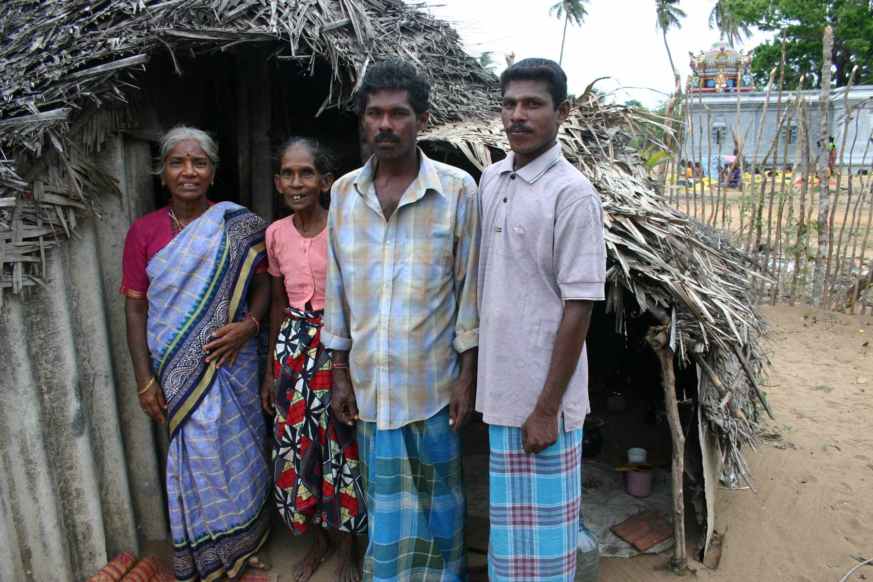 Family of Vedar (or Veta Vellalar) ancestry from the village of Mankerny in Batticaloa district in Sri Lanka standing infront of their family house. In the backround is Siddhi Vinayakar Hindu Temple.